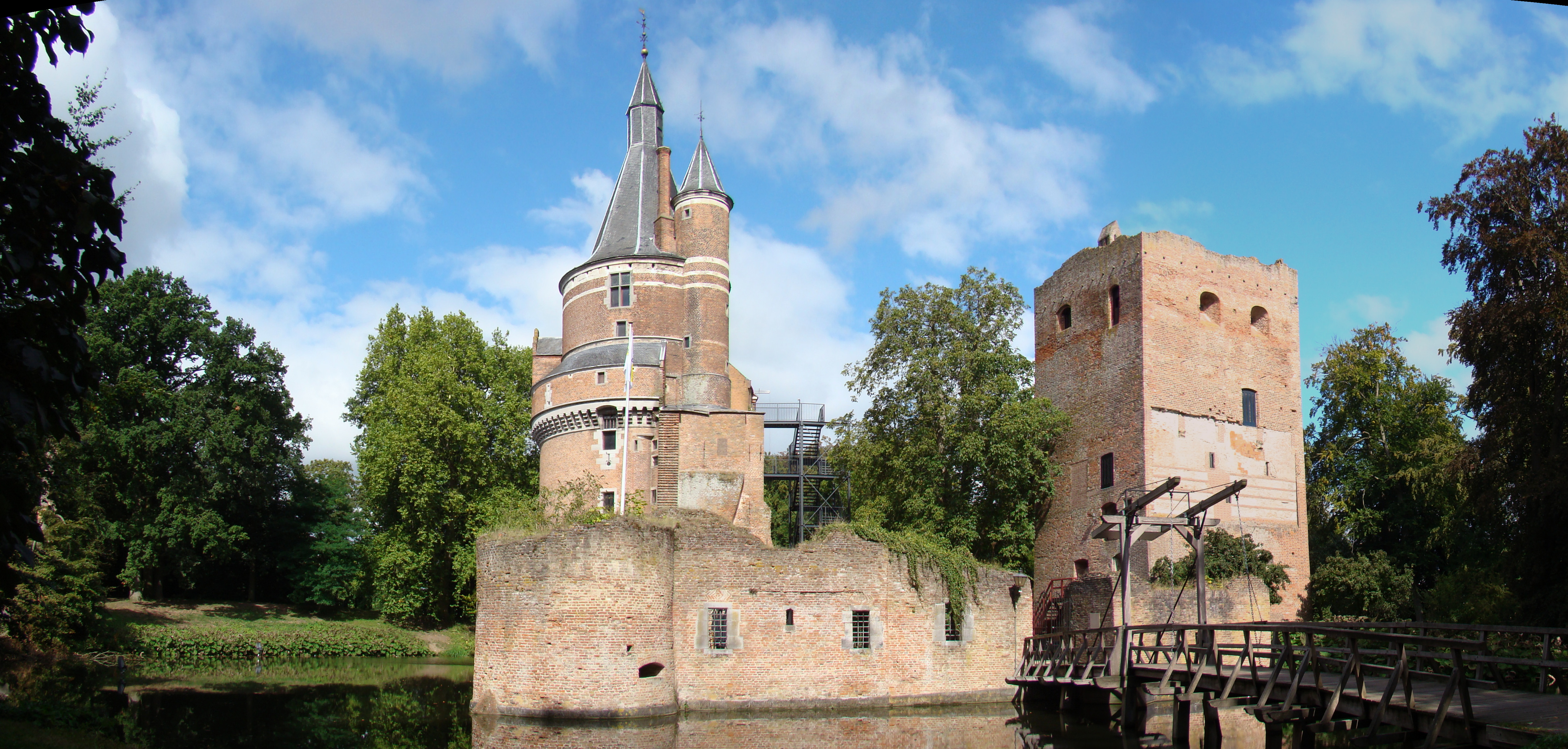 Castle Duurstede, at Wijk bij Duurstede (Netherlands)